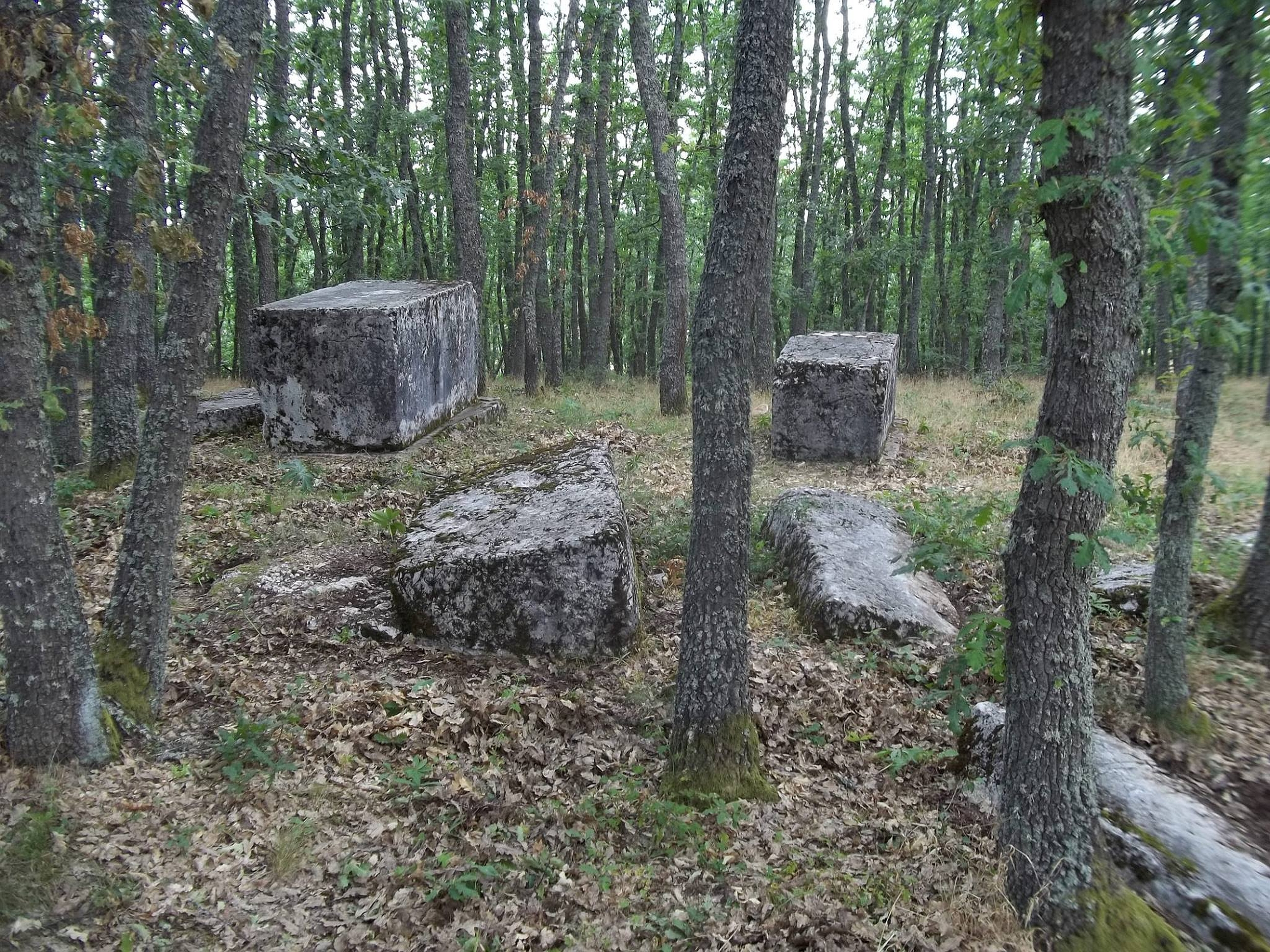 This image was uploaded as part of Trace of Soul 2015.